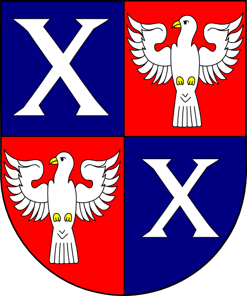 Coat of arms (shield only) of Jozef Feranec, bishop of Banská Bystrica, Slovakia (1973 - 1990)